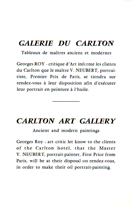 Carlton Art gallery Paris